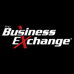 Business Exchange logo